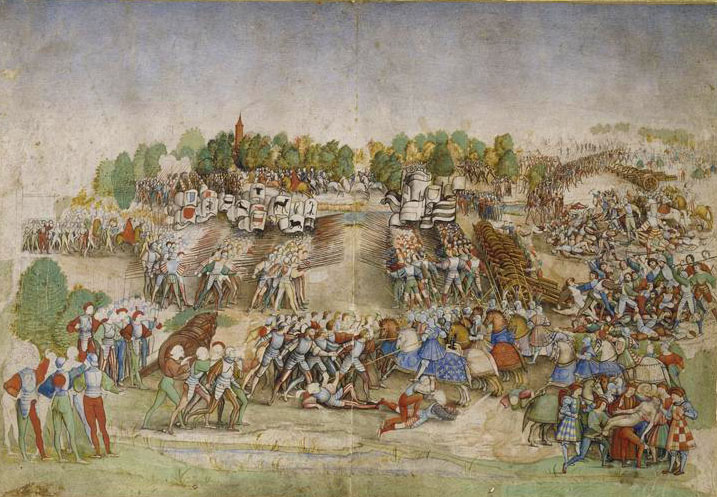 This may be the drawing described by Brulliot as: deux armées rangées en bataille aussi nommée la bataille de Charles le hardi. In this case this would not represent the battle of Marignano at all, but rather one of the battles of the Burgundian wars of the 1470s, and the painting would possibly even predate Marignano by two or three years. It is possible that this drawing was made in ca. 1515 by the Maître à la Ratière with the intention of showing a Swiss battle of the Burgundian Wars, but "recent events" of the time contributed to the re-interpretation of the drawing as showing the battle of Marignano from an early time (?)